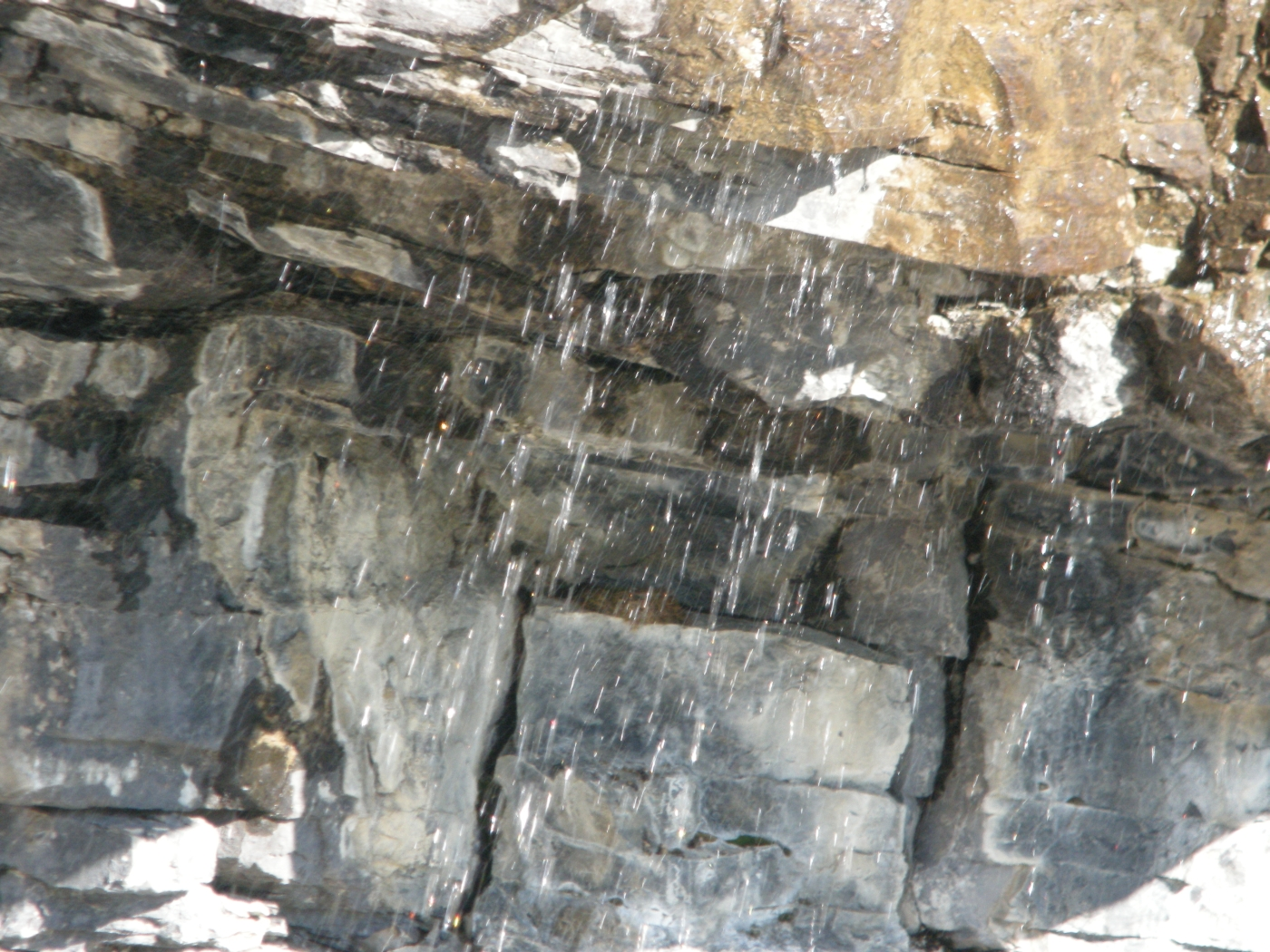 Black Swift nest with egg, Glacier NP, July 5, 2012